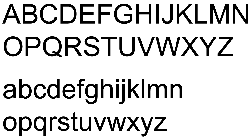 Image demonstrating the english script. Author:Mac Wanter